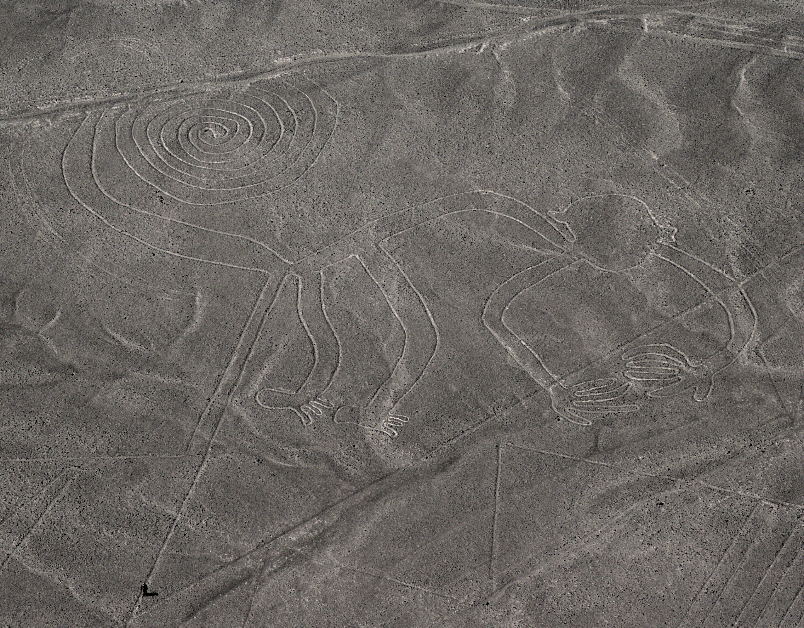 monkey geoglyphs on Nazca planes, Peru